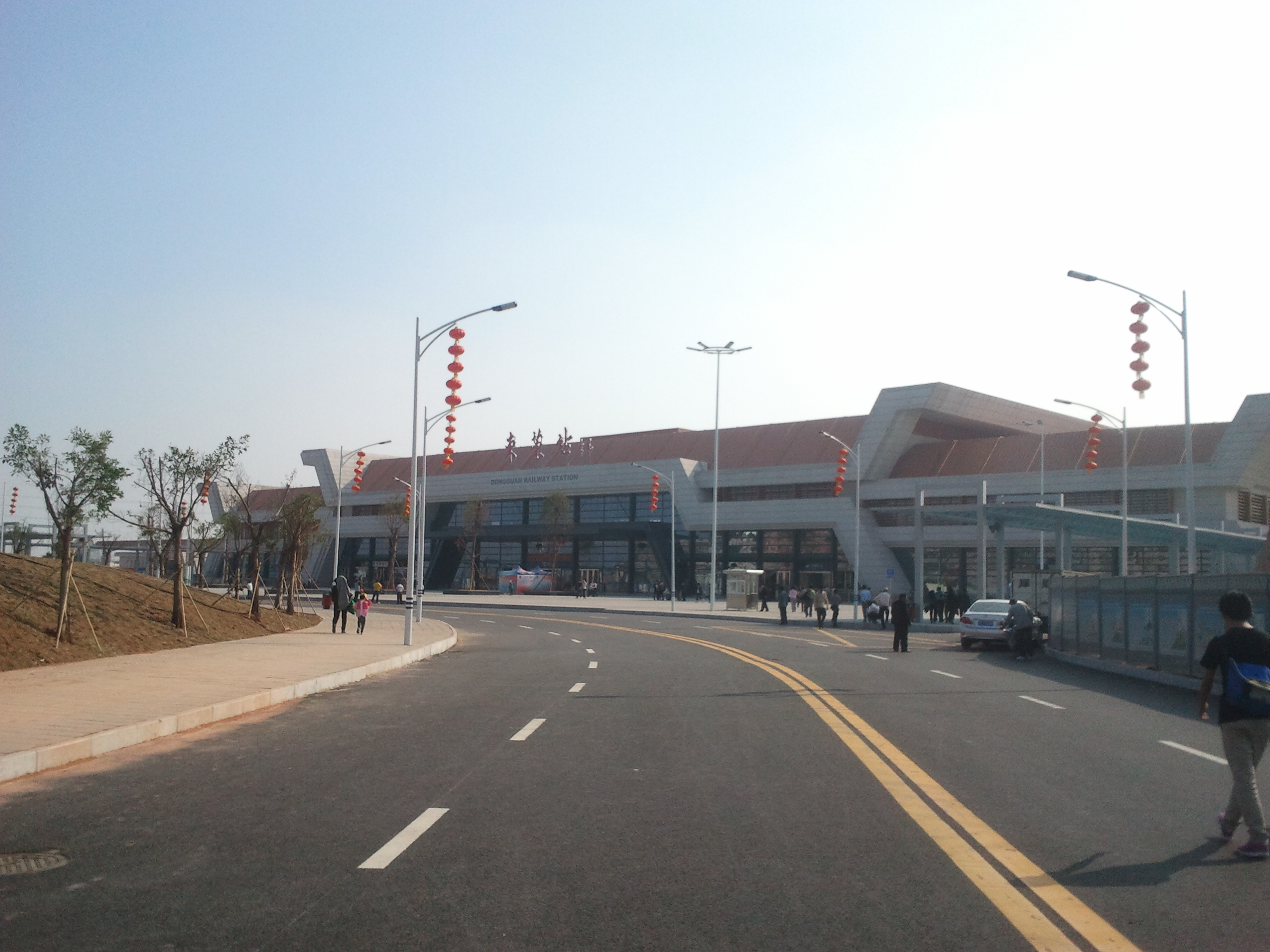 Dongguan Station (New) view